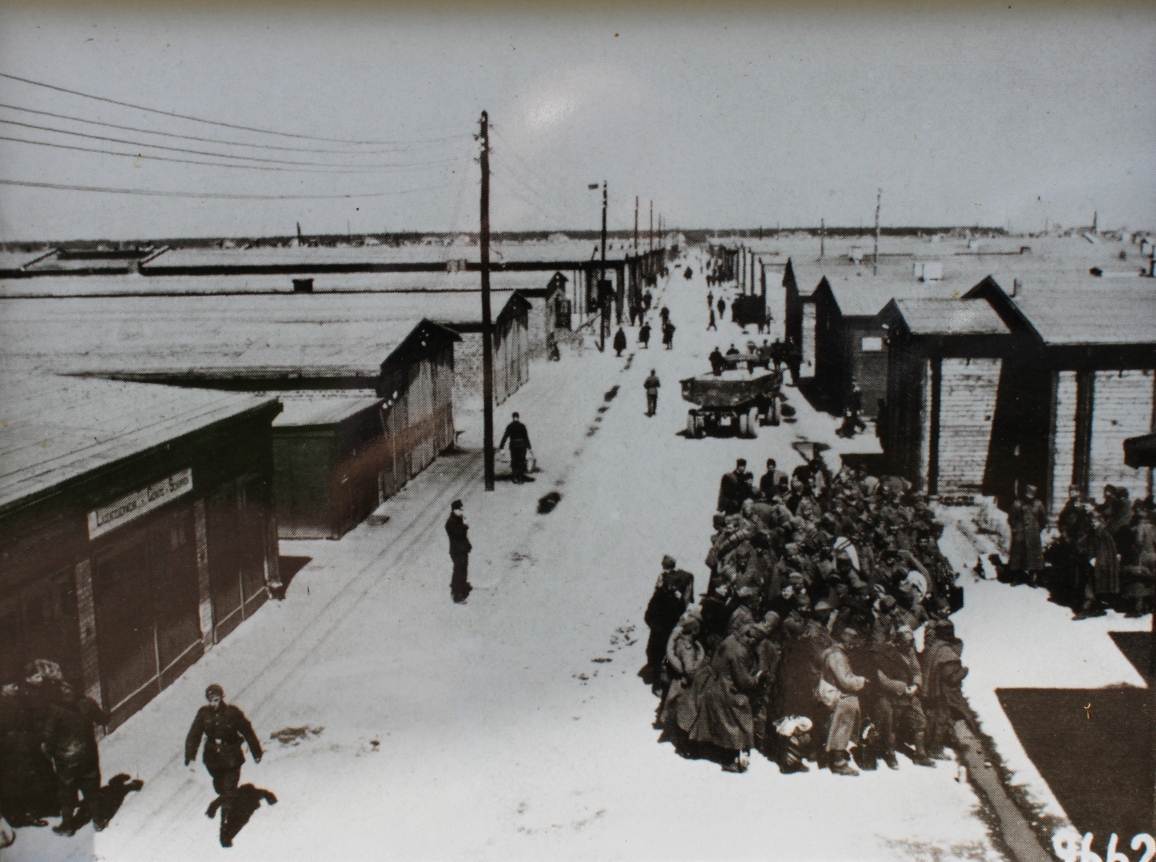 mainstreet of Stalag IV-B